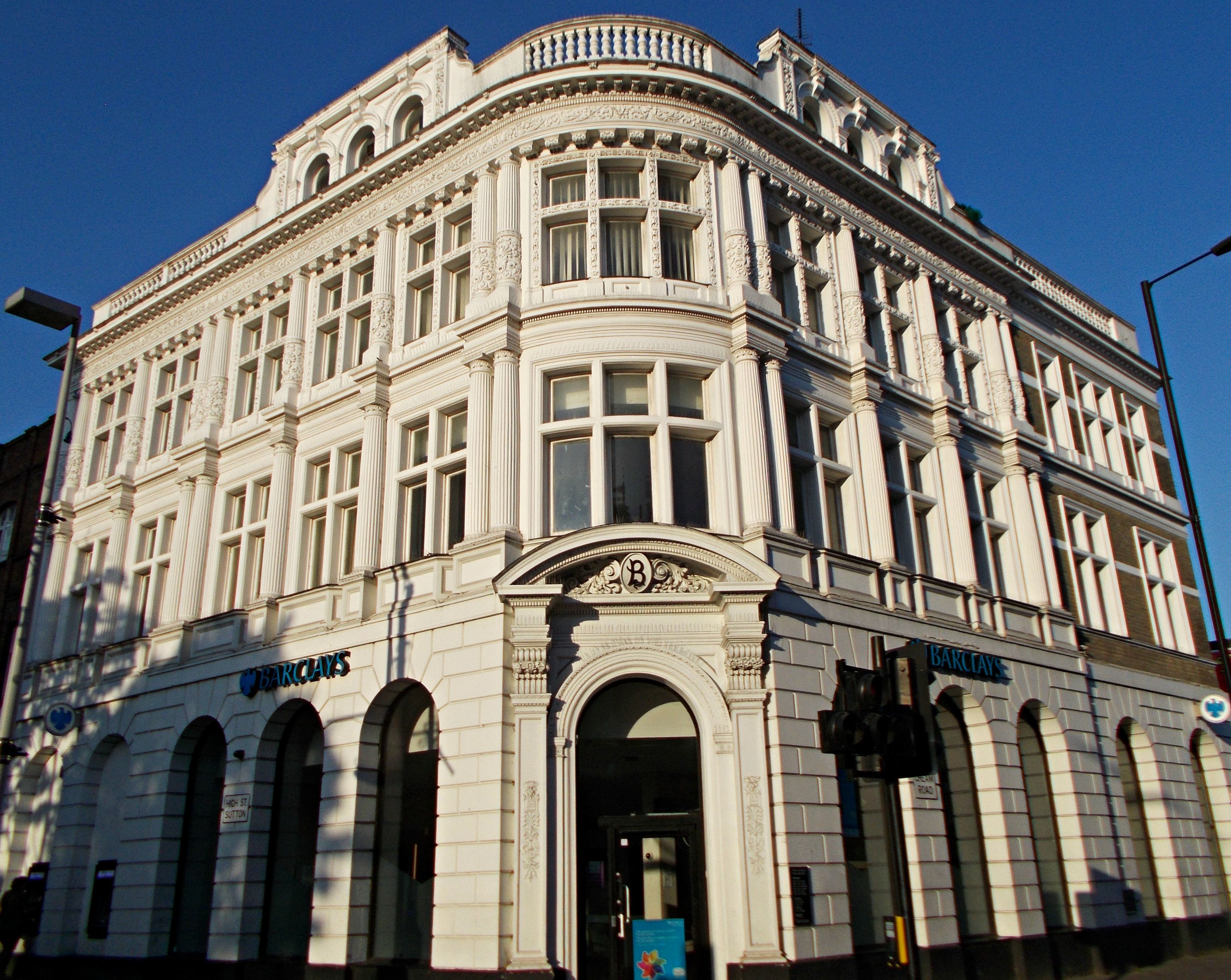 The grand and decorative London and Provincial Bank building (now home to Barclays Bank), which was built overlooking the historic crossroads in Sutton town centre in 1894. It is four storeys tall and forms a prominent landmark when arriving in the town centre. There is a series of arches at ground level, and the main entrance is on the corner where the two roads meet, rounded in shape and surrounded by an ornate architrave and segmental pediment.